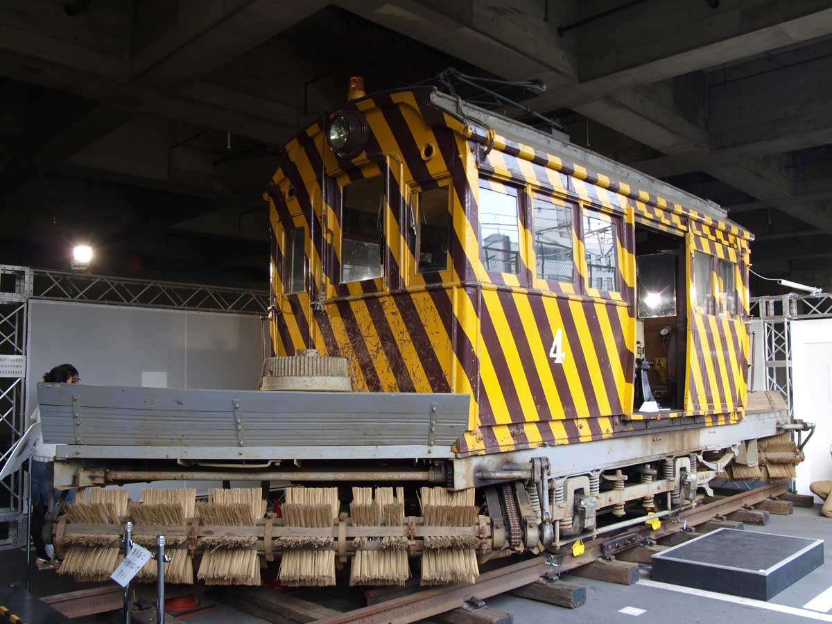 This is Type "hai" snowplow car with bamboo rotary of Hakodate city tram department. This car is exhibited by "100 years of transportation in TOKYO" at Edo-Tokyo Museum.